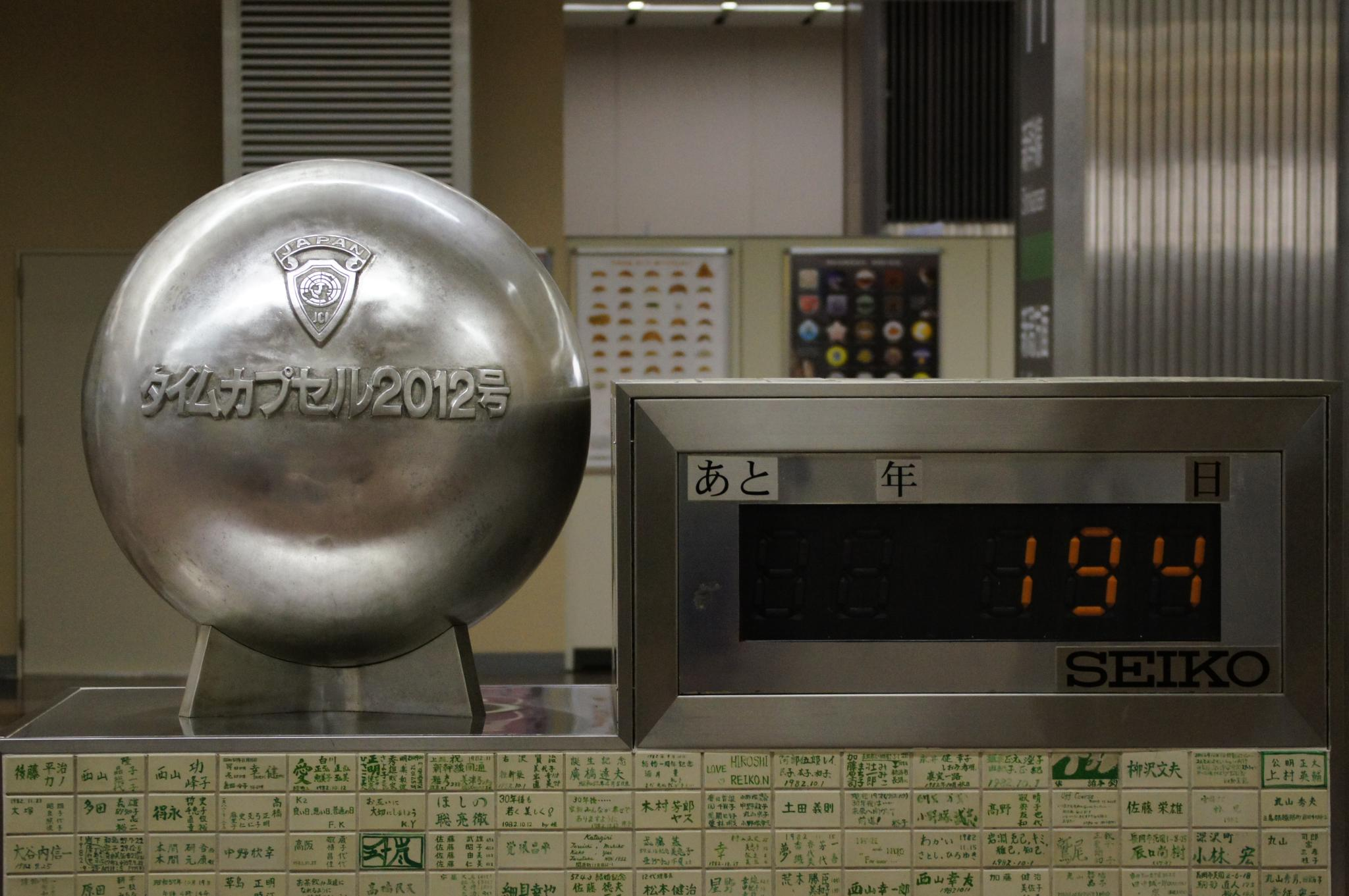 Time capsule 2012, Nagaoka Station